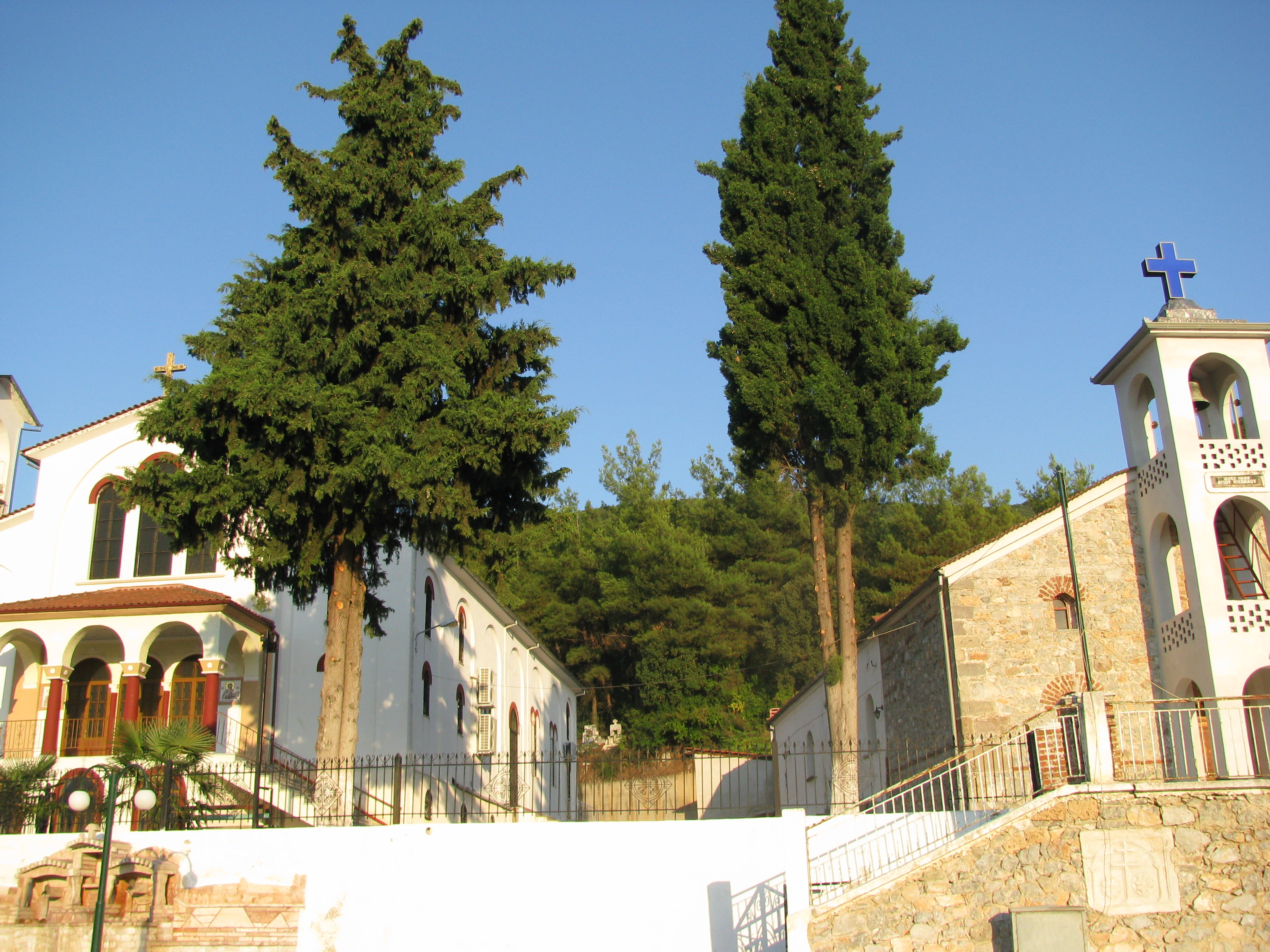 Churches of Straishta or Ida, Pella prefecture, Greece